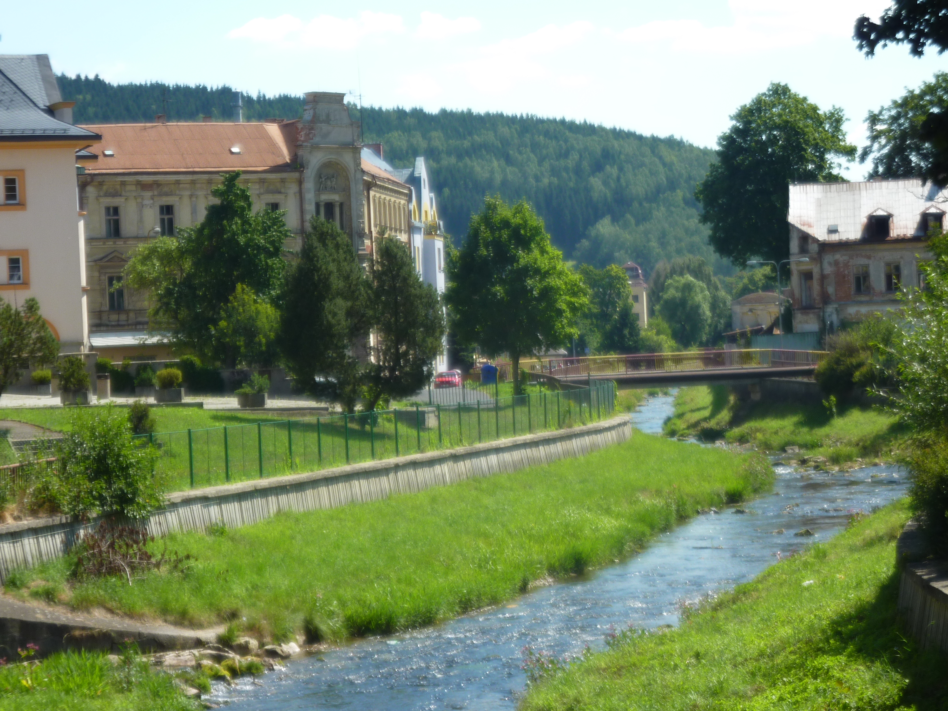 Kraslice: Svatava river